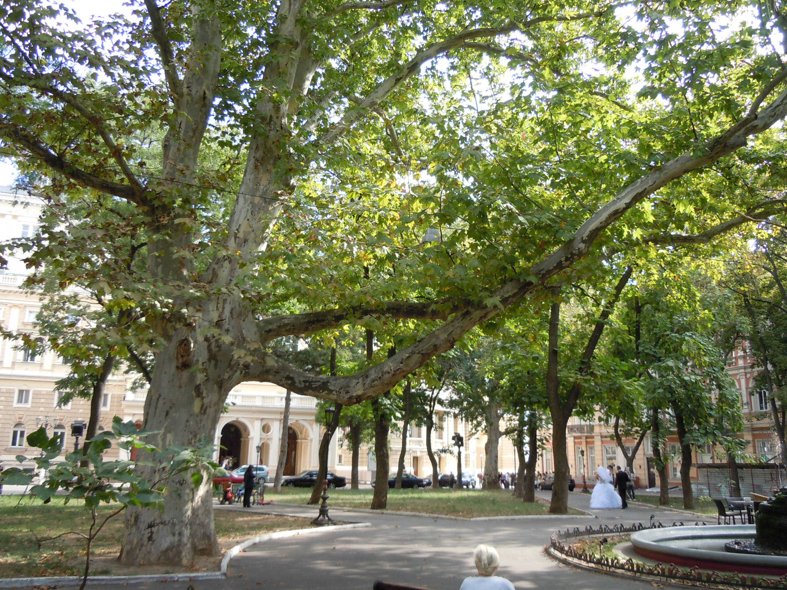 London Plane Platanus × hispanica, Palais-Royal garden, Odessa